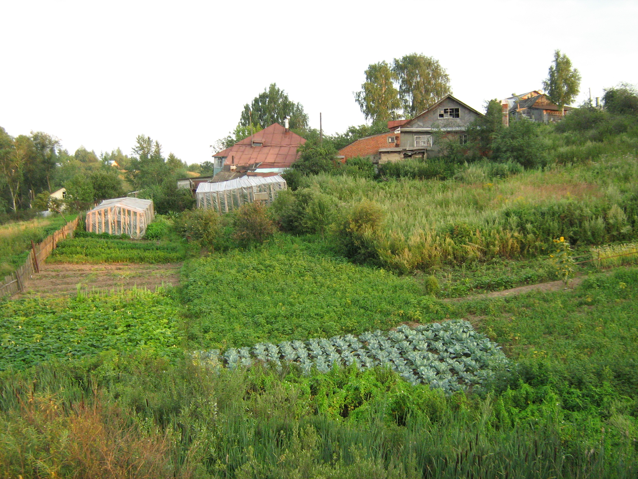 Old houses with vegetable gardens in the village of Fedyakovo (Kstovsky District, Nizhny Novgorod Oblast), seen from M-7.